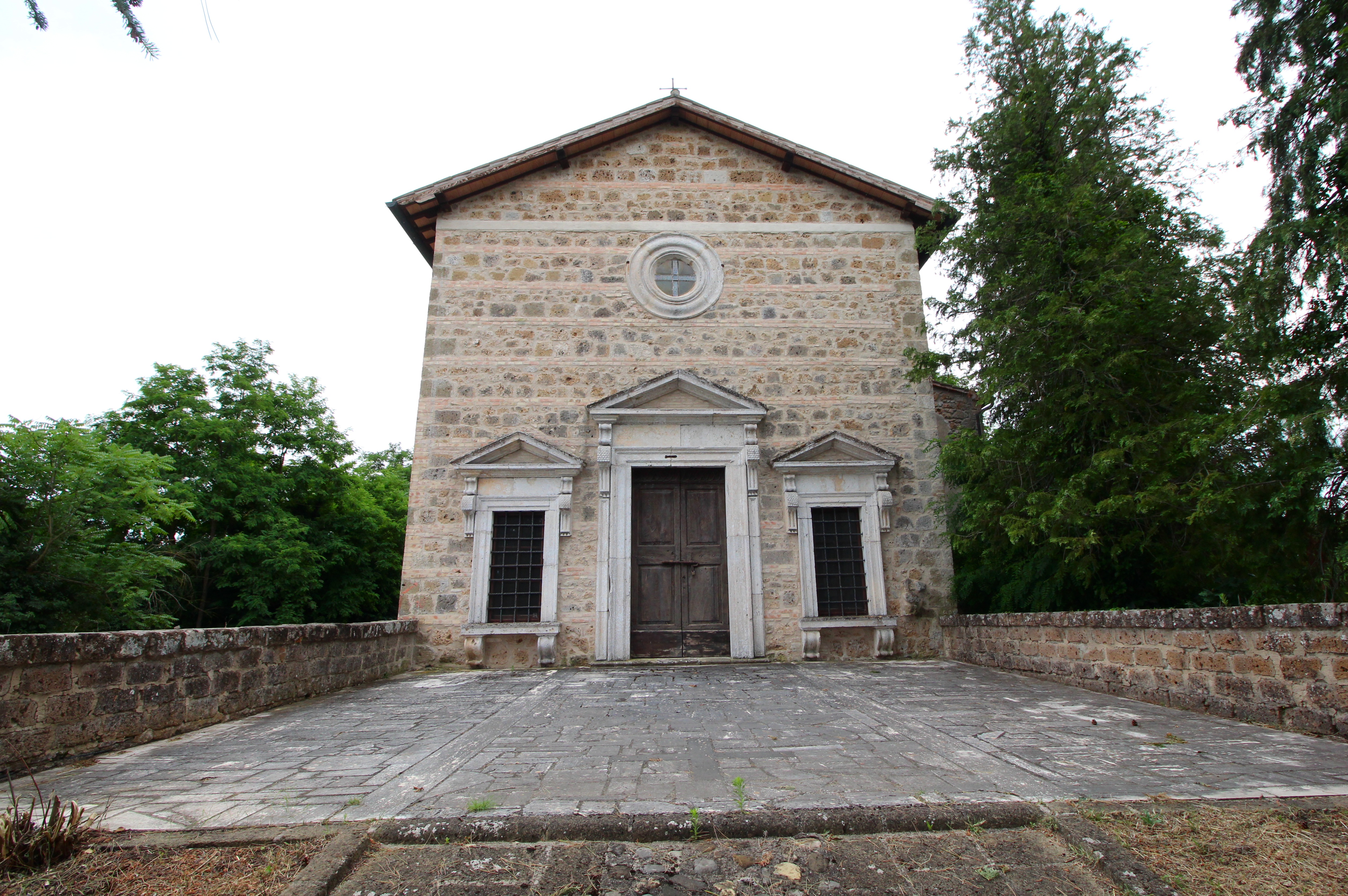 Church Madonna del Giglio, Proceno, Province of Viterbo, Lazio, Italy